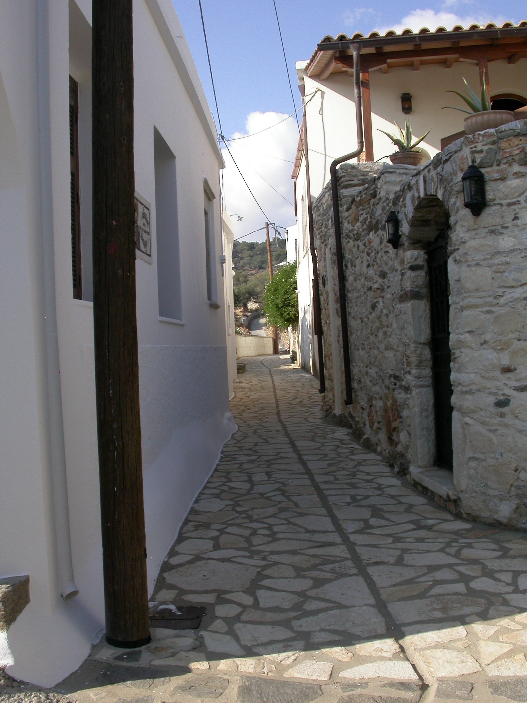 At the St. Pantaleon street, Pano Kaloxilos of Naxos, Cyclades, Greece